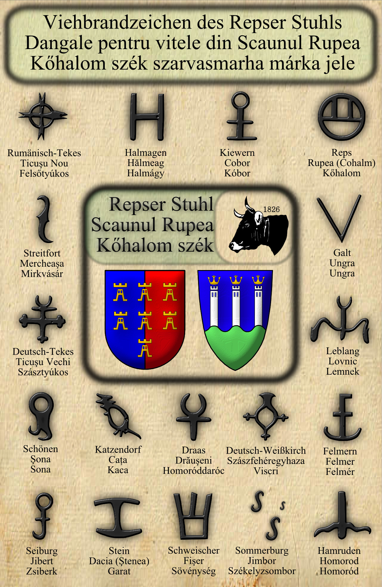 Transylvanian Saxon cattle-brands: Reps county